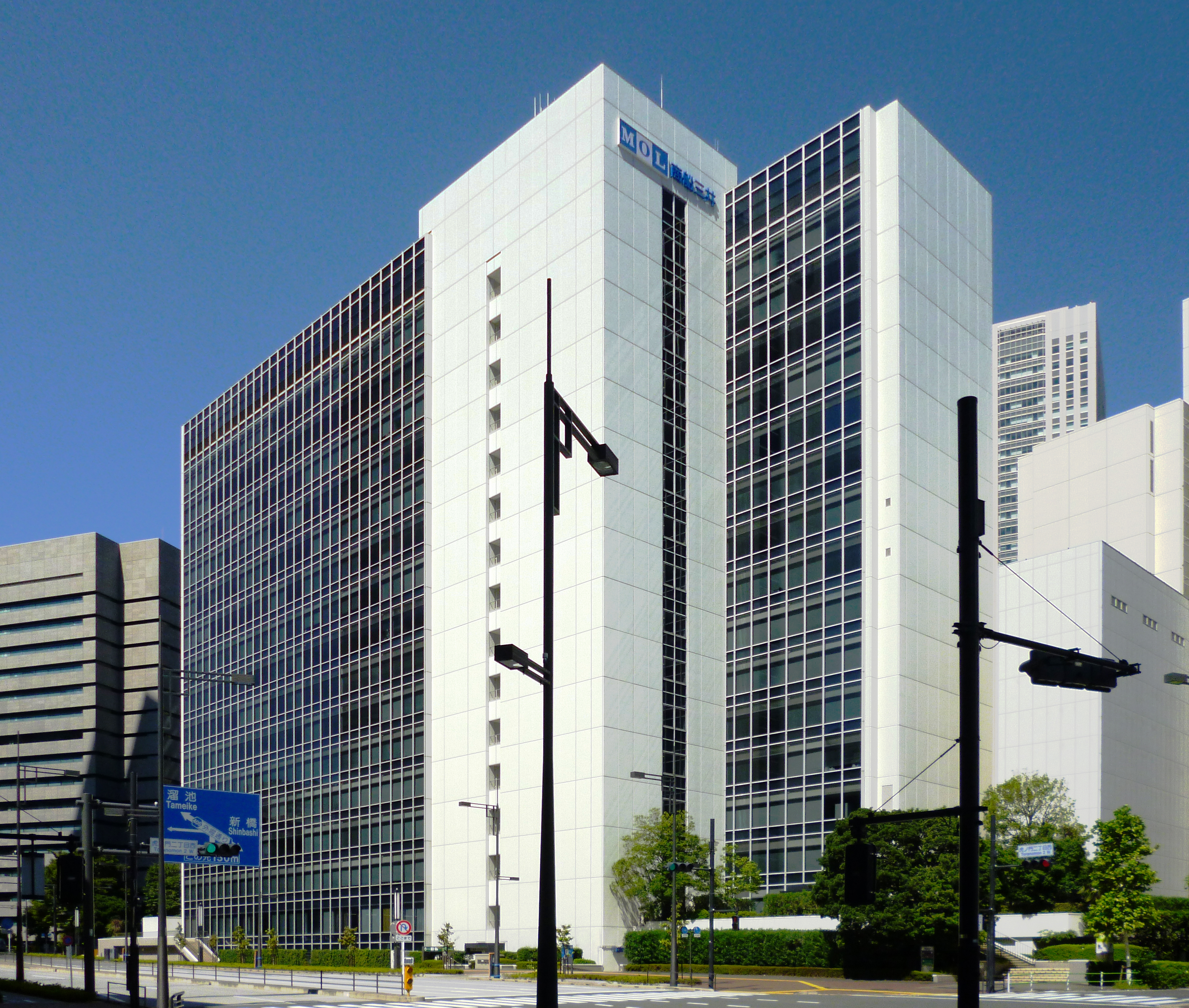 Toranomon Daibiru Building (also called Shosen Mitsui Building) in Minato, Tokyo, Japan.